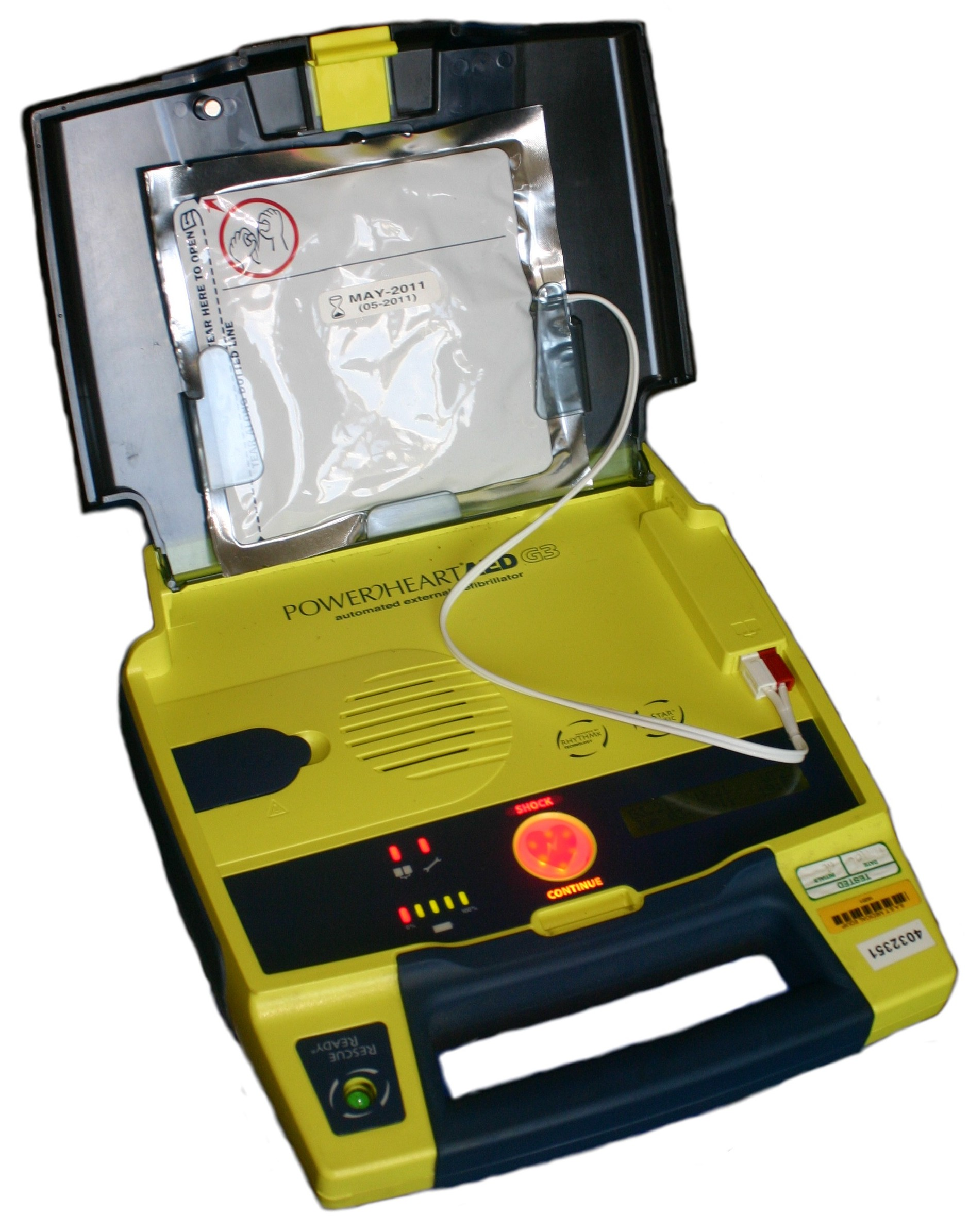 Philips HS1 Defibrillator (AED), open, charged and ready for use